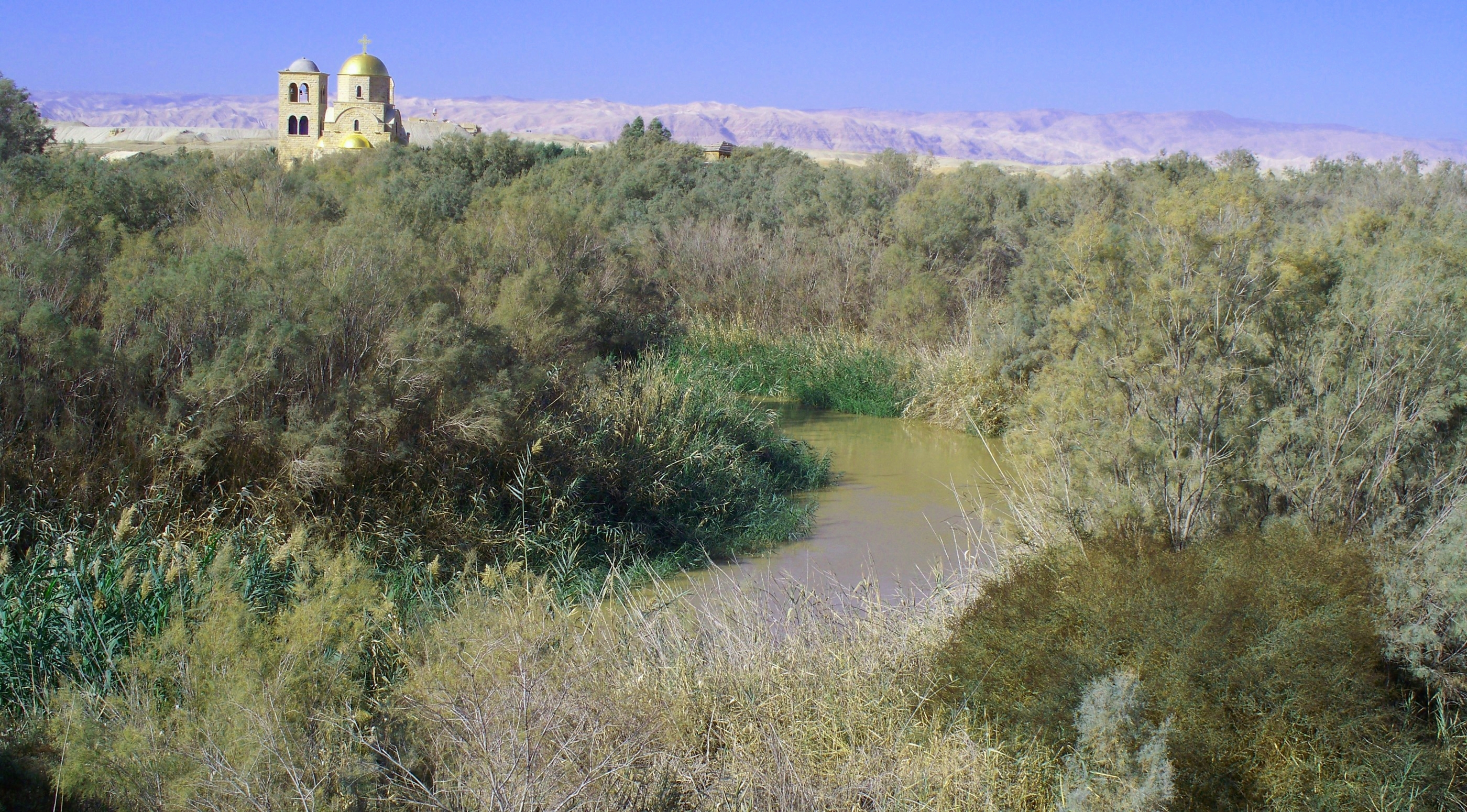 Bethabara with River Jordan in December 2009.